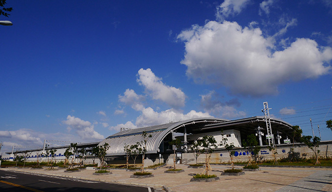 Beihu Station is a local train station of Taiwan's Western main rail line. The station is located within the boundary of Hukou Town, Hsinchu County.